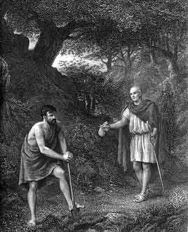 Timon and Apemantus (1873) by Charles Cousen. Depicts the two characters from Timon of Athens by William Shakespeare.